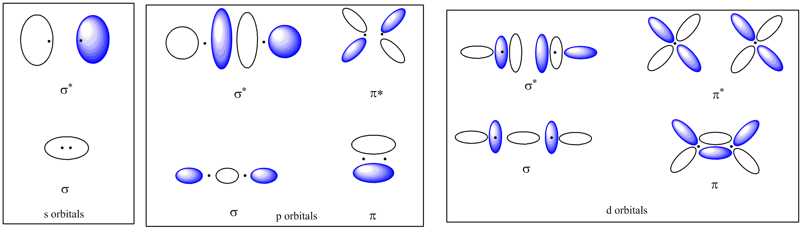 Bonding and anti-bonding interactions of s,p,and d orbitals